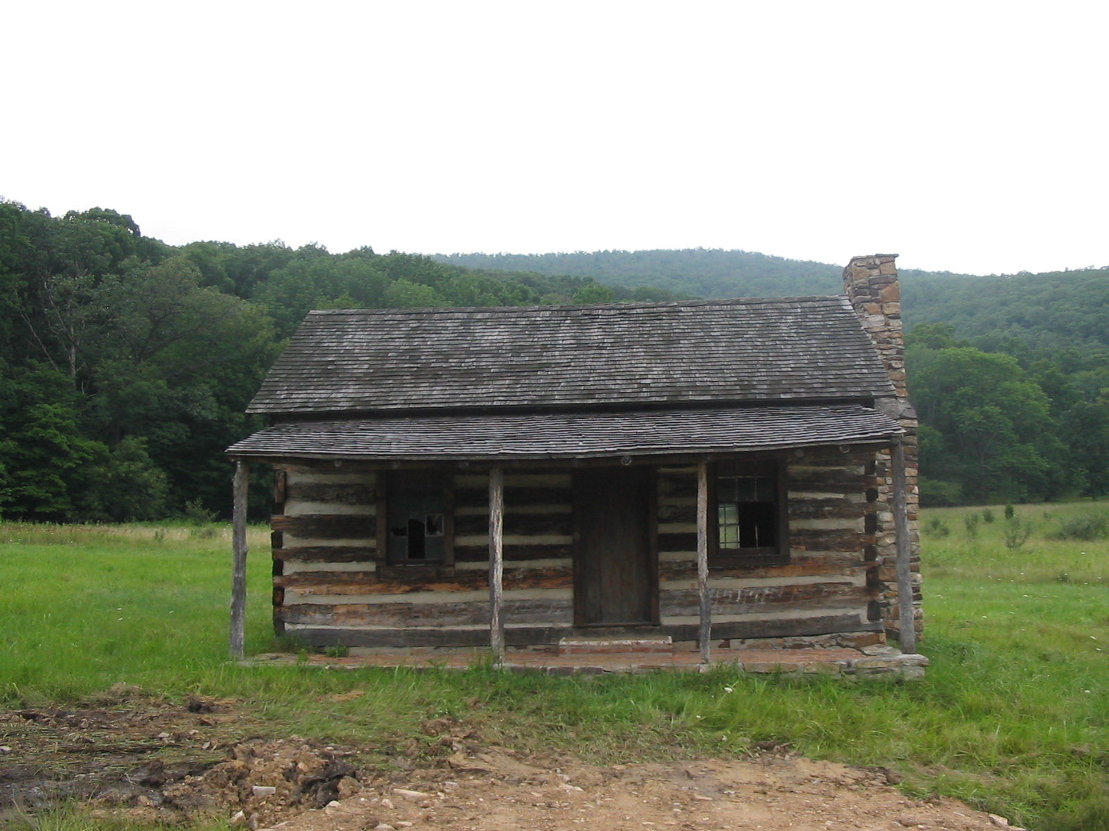 Image taken by me for Wikipedia